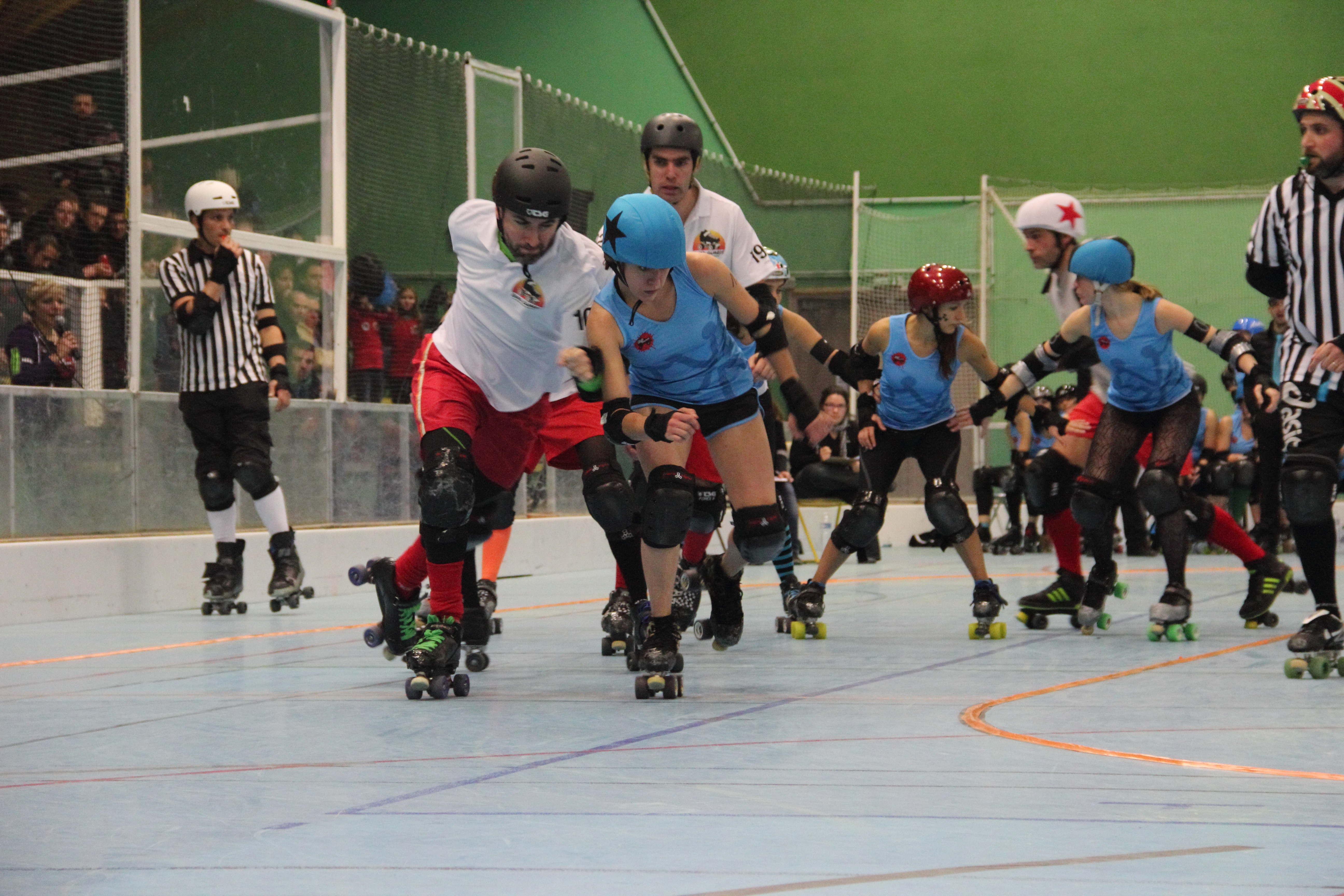 Roller Derby Toulouse — 9 December 2012, La Ramée, Tournefeuille. Match between: Nothing Toulouse — Quad Guards